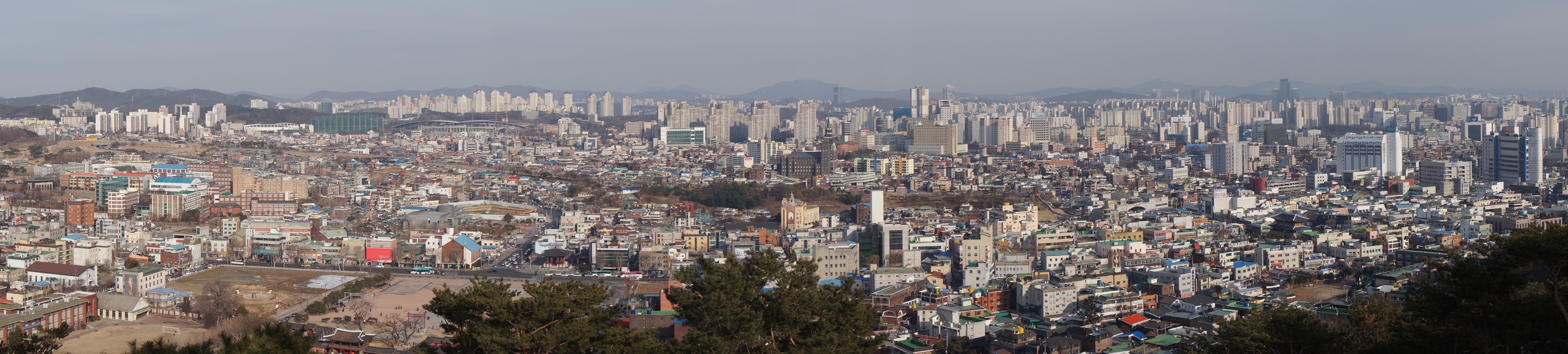 Cityscape of Suwon, South Korea